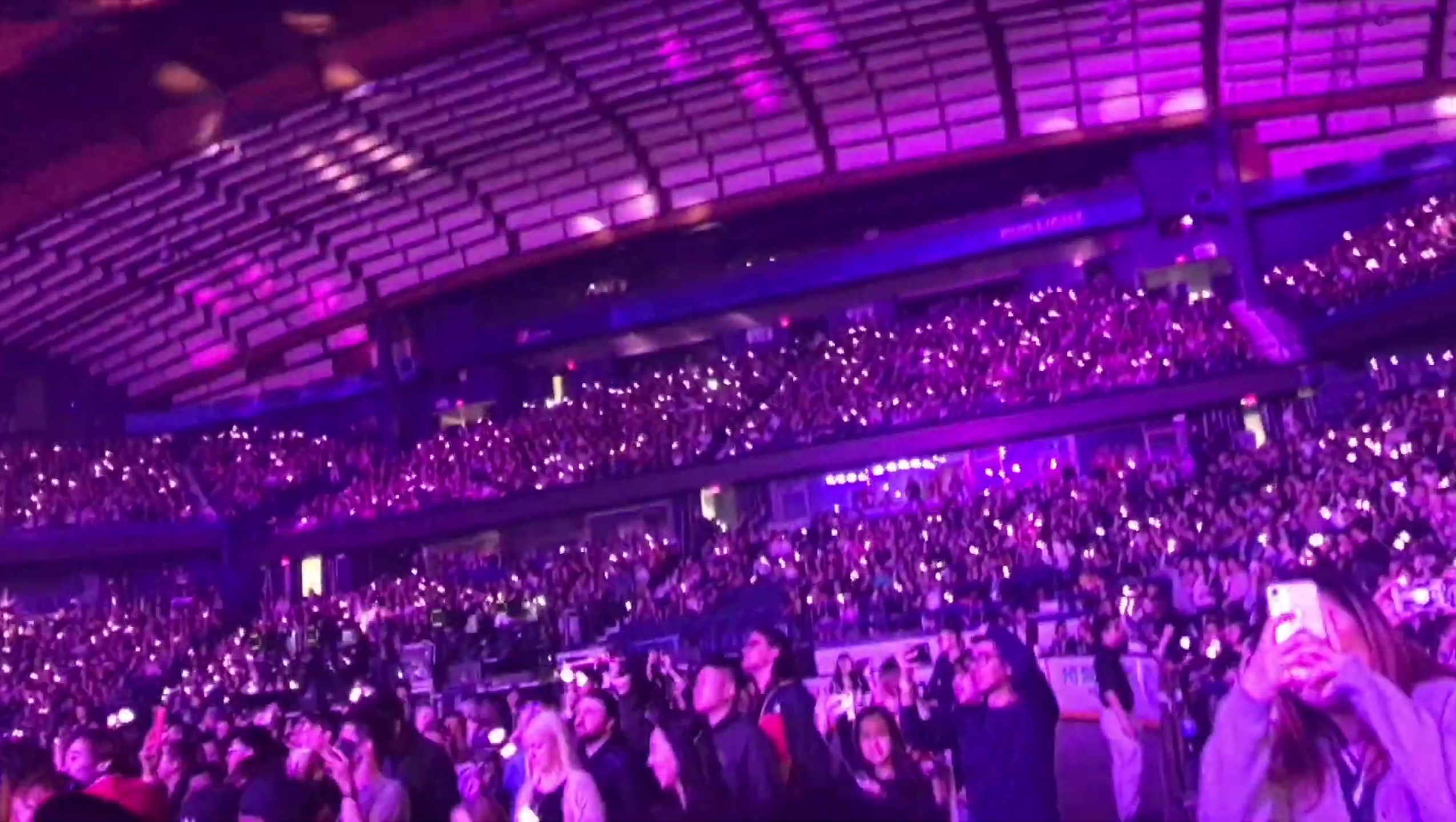 Blackpink World Tour (In Your Area) (2018–2020)